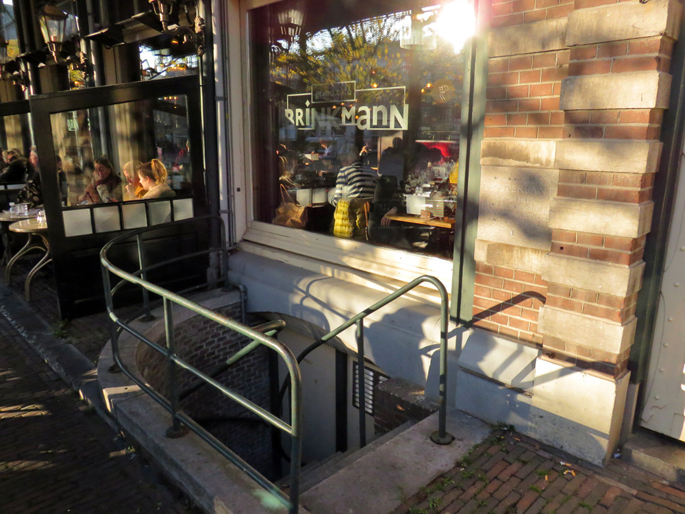 Stairs to the celler underneath grand-cafe Brinkmann at Grote Markt in Haarlem, where from 1950 till 1973 the art and literature society Teisterbant had its meeting place.